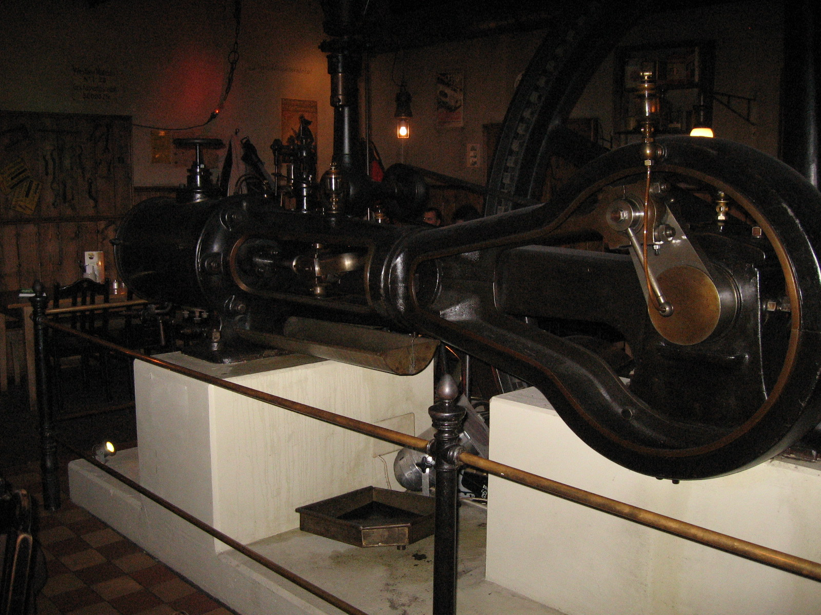 Steam engine